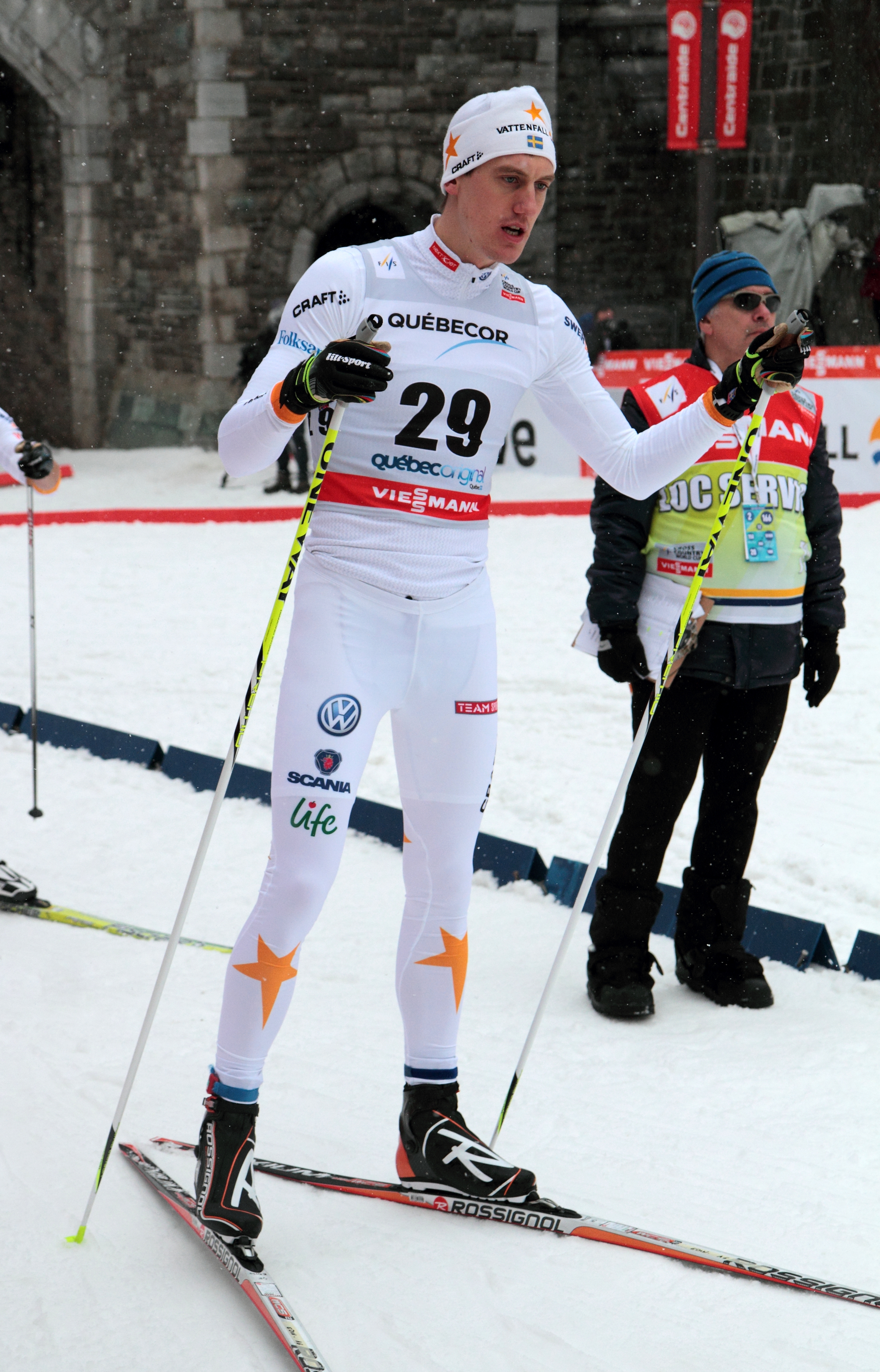 Johan Edin, FIS Cross-Country World Cup 2012, Quebec, Canada.